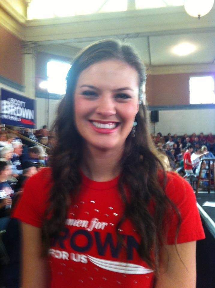 Ayla Brown on the campaign trail for Scott Brown's reelection